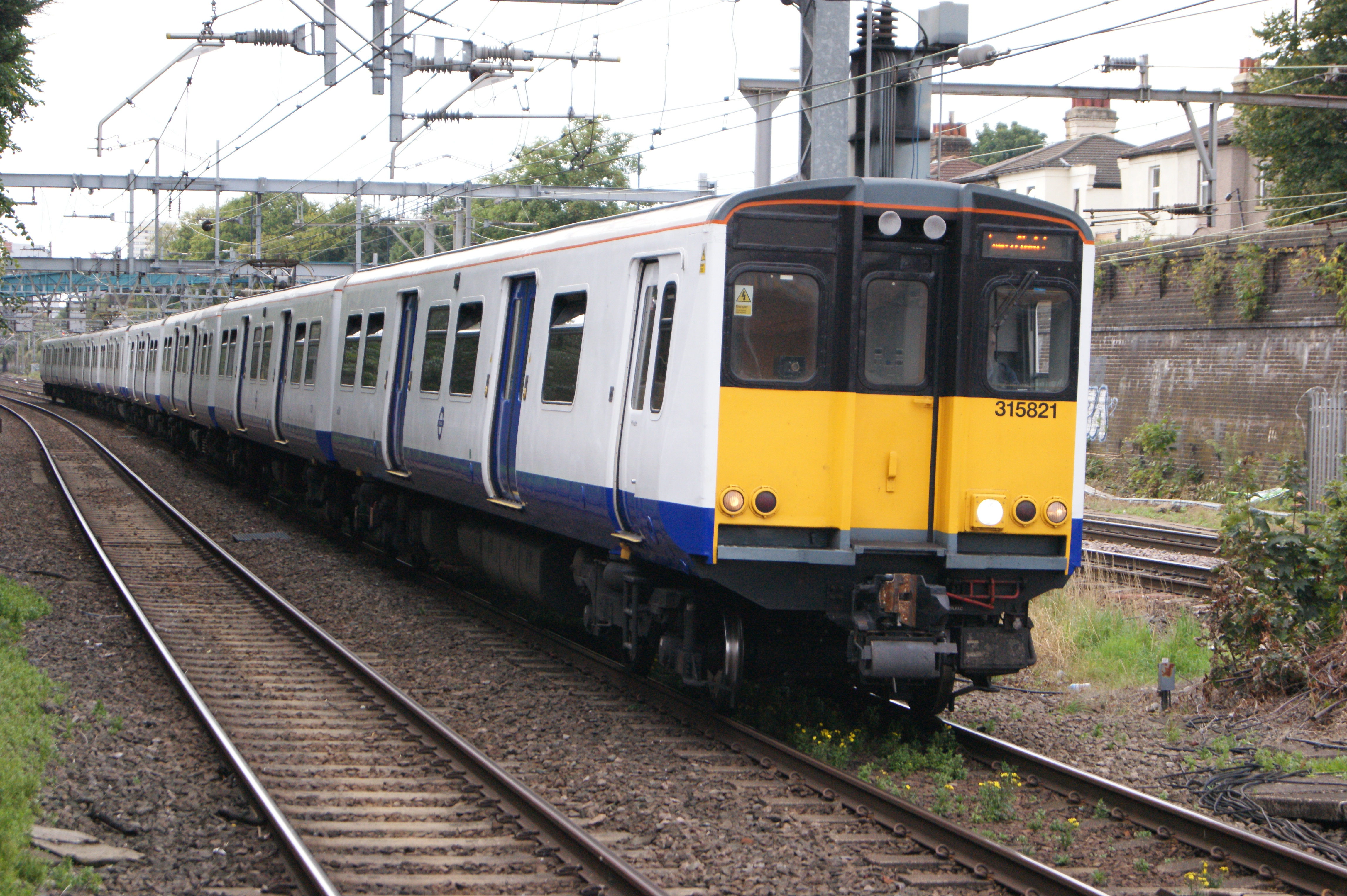 BREL (York) Class 315 4-car emu No.315 821 of TfL Rail in their white livery with blue stripe and doors livery, speeding through Forest Gate on a Liverpool St. - Shenfield service, 13 September 2015.